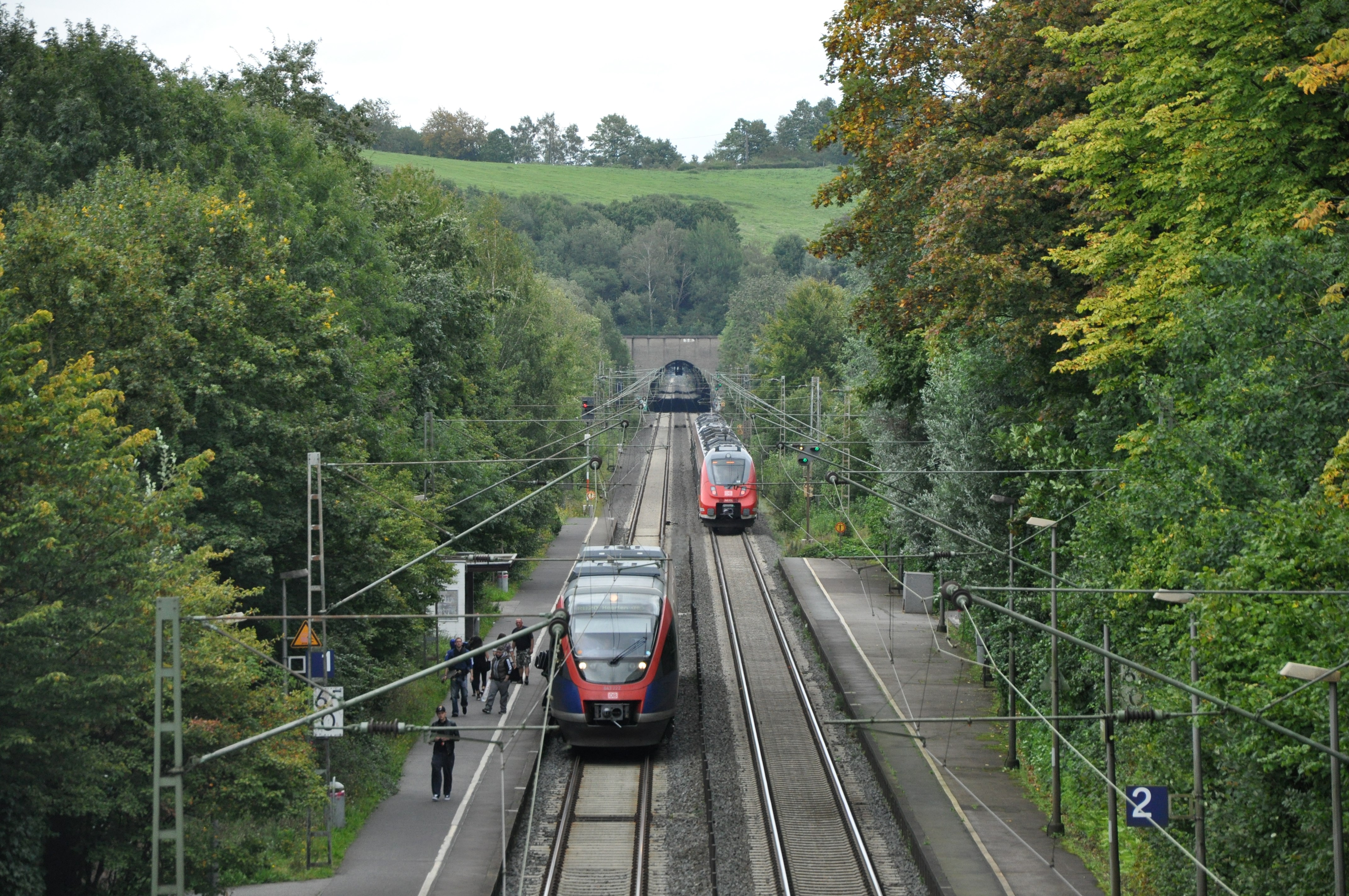 643 222 of Euregiobahn stops in Eilendorf, while a Talent 2-EMU passes.